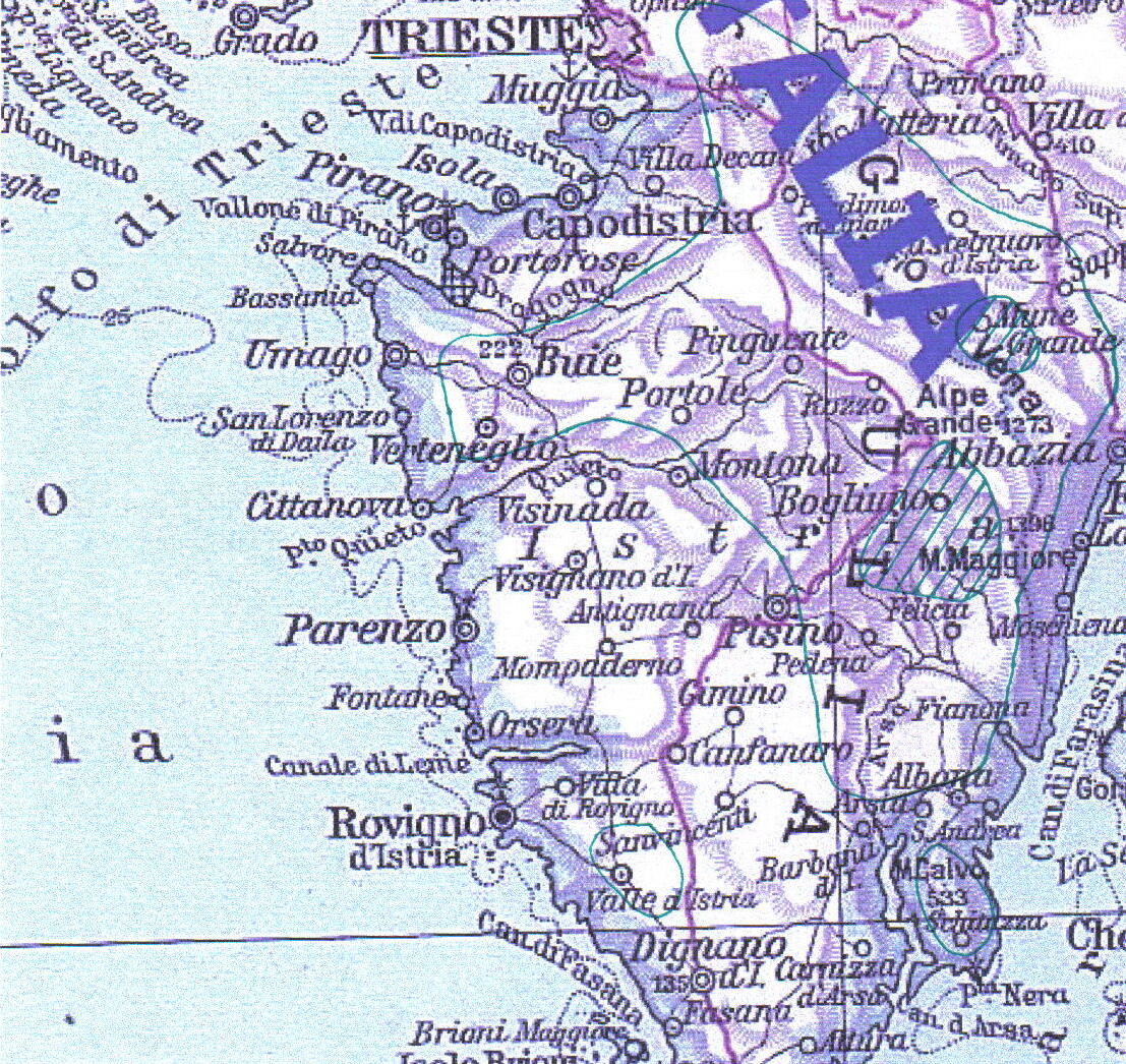 The green line limits the istrorumanians areas in 1800, while the green dashed lines limit the remaining istrorumenians areas in 1900.